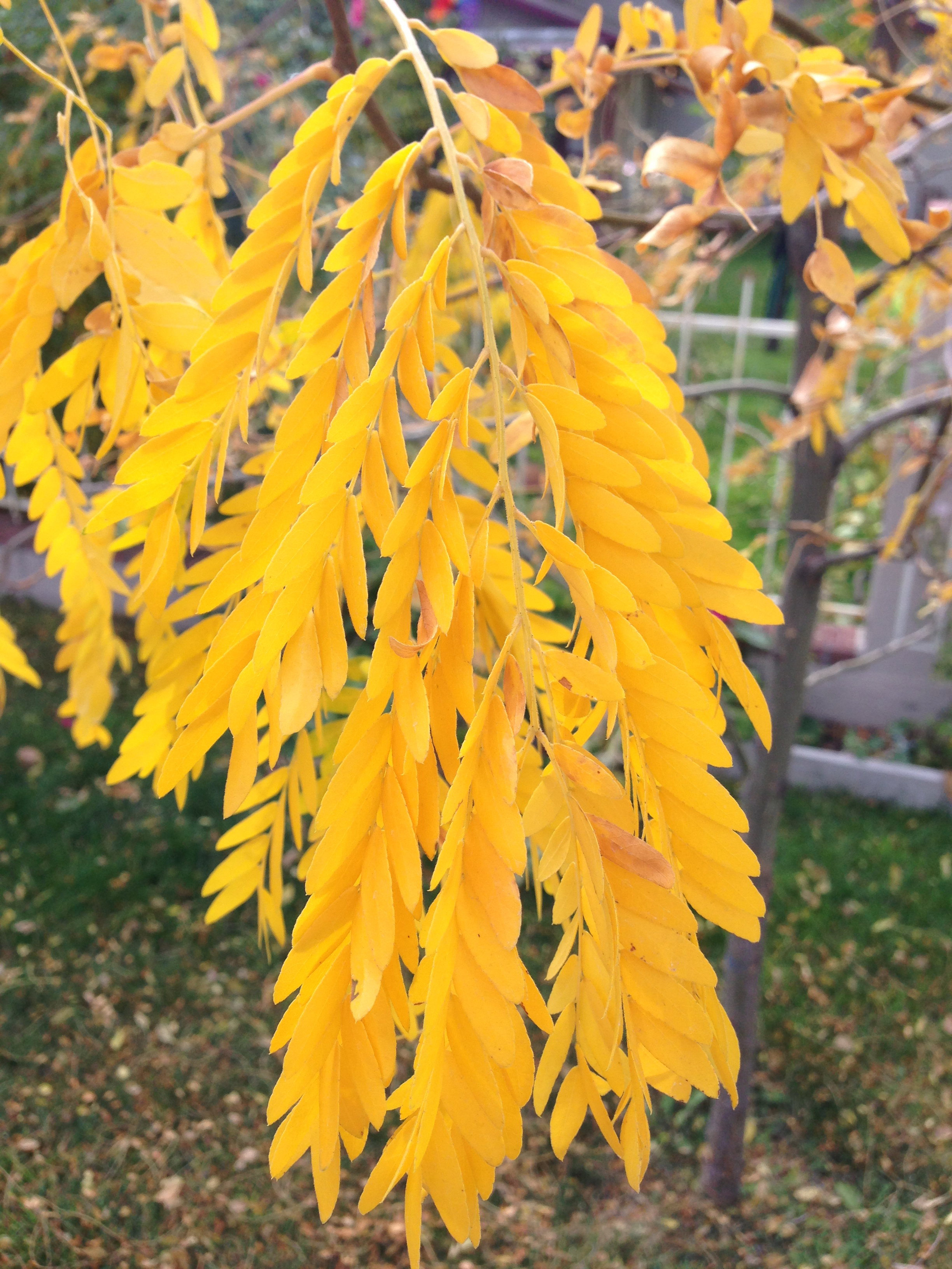 Honey Locust foliage during autumn in Elko, Nevada